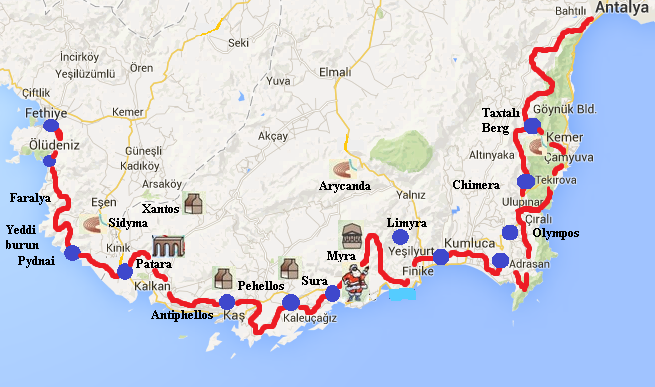 Likiya yolunun xəritə-sxemi